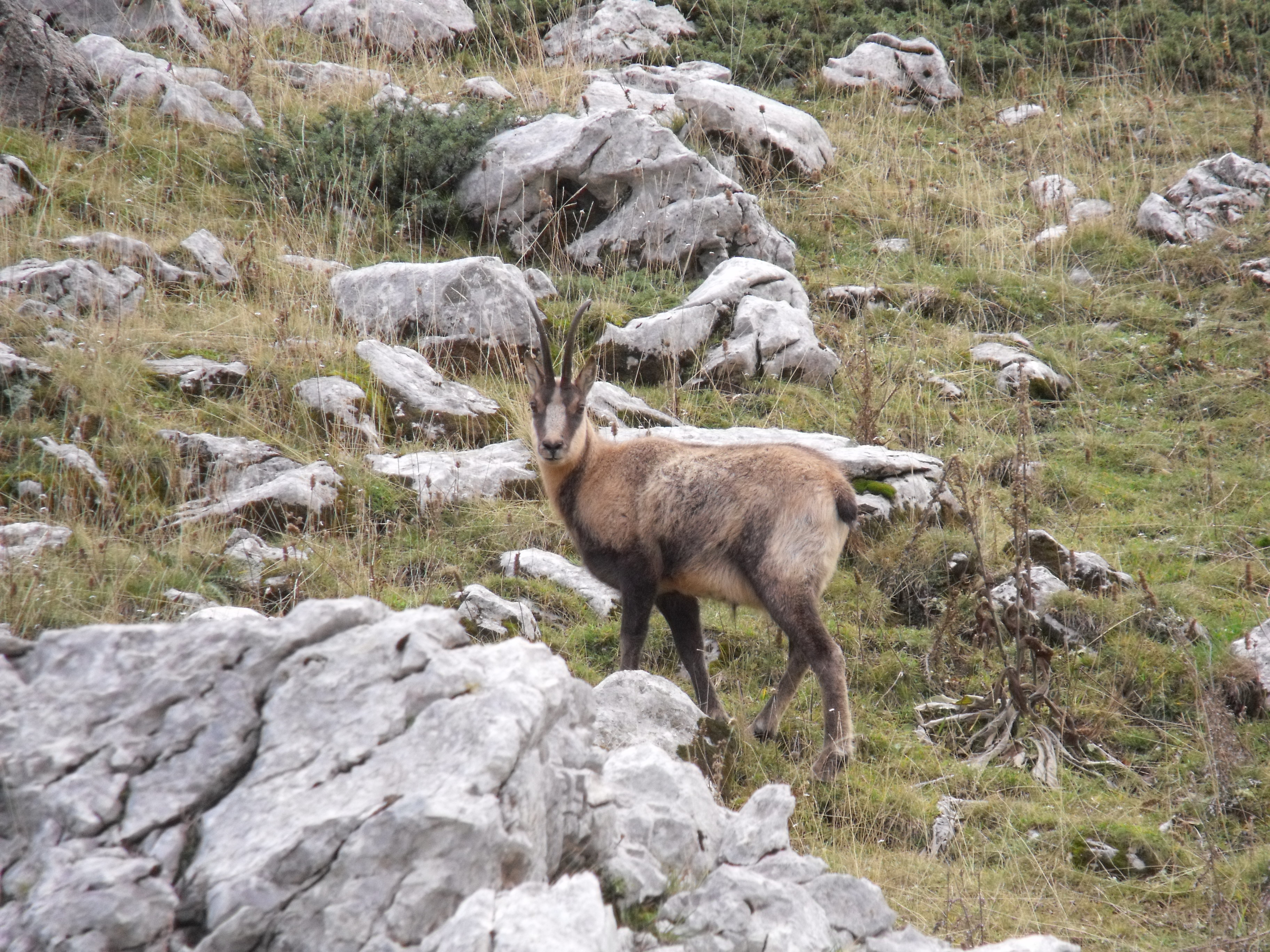 Rupicapra pyrenaica ornata photographed on Camosciara massif (National park of Abruzzo, Lazioand Molise, central Italy). About 1700 m above sea level. Photo by Massimiliano Marcelli.